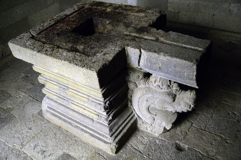 The Yoni pedestal carved with Naga in the main chamber (Garbagriha) of Candi Jawi, Prigen, Pasuruan, East Java.